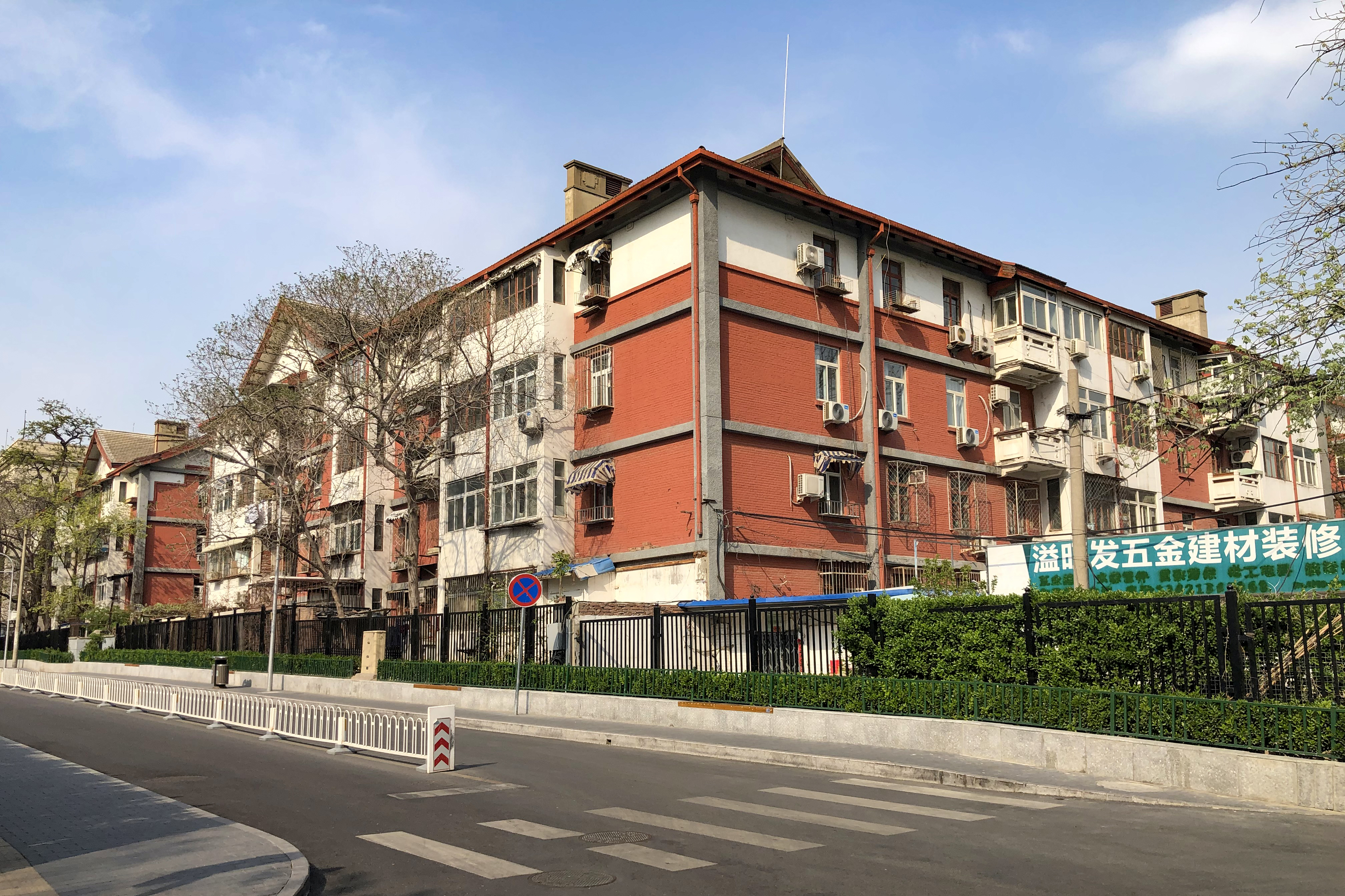 South of the MOR building.